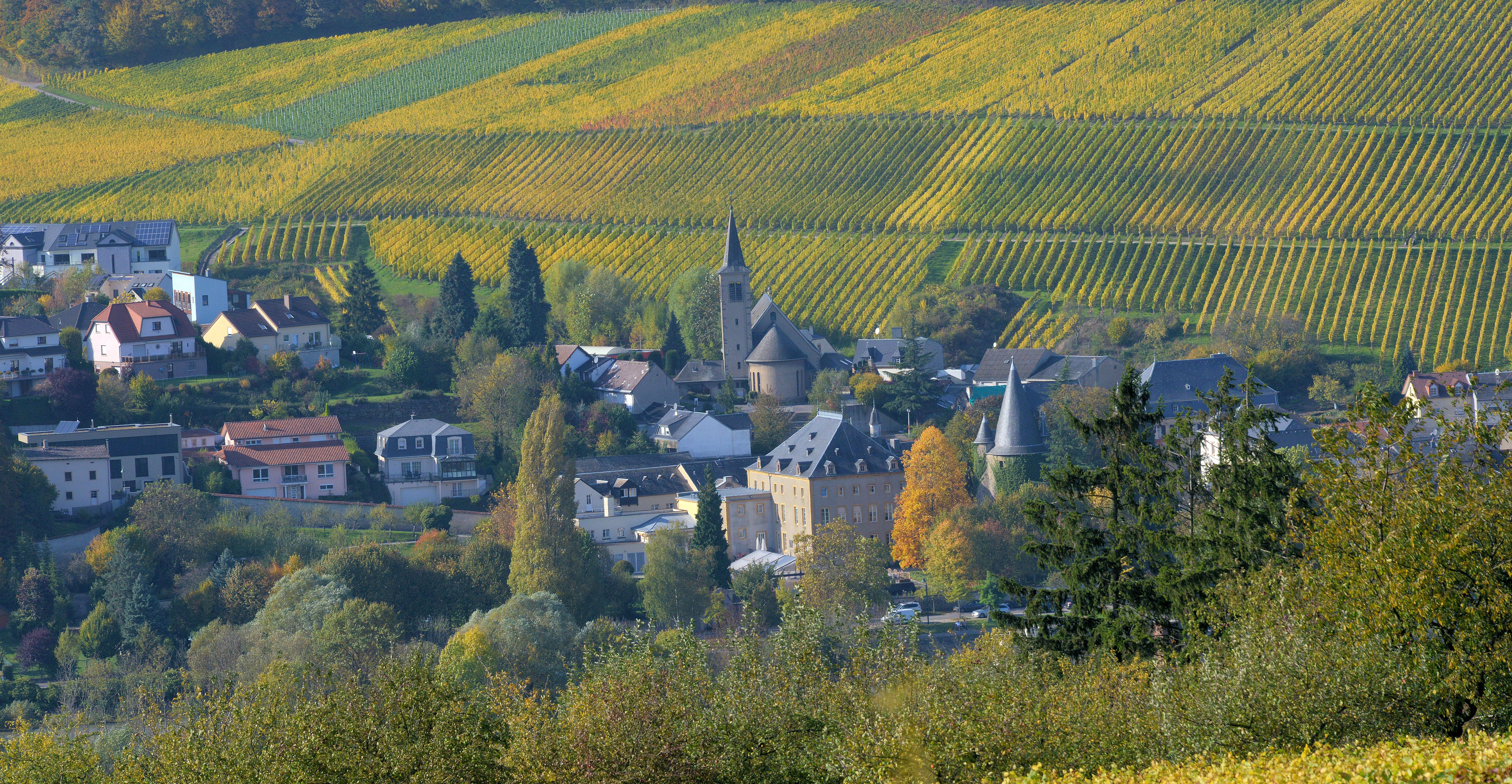 Schengen is a Luxembourg village that borders with France and Germany. The village is surrounded by beautiful vineyards. The grapes are mostly Elbling or Pinot. Elbling grapes have been grown by Romans who sttled here quite close to the most important Roman town North of the Alps: Treveris (Trier or Trèves). A bridge connects Perl/Germany with Schengen over spanning the river Moselle that comes from France and that flows down along the Luxembourg/Germany border to the Rhine. The Moselle is a transboundary river.